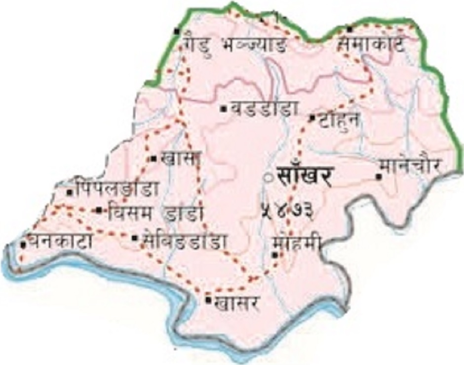 Villages of Sankhar